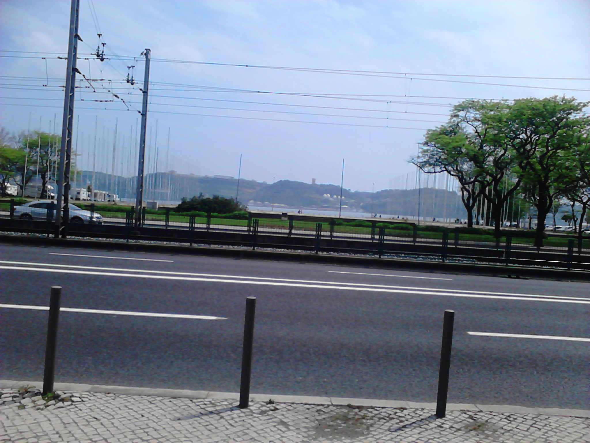 Overhead railway lines in the Cascais line (Portugal), near Belém station.